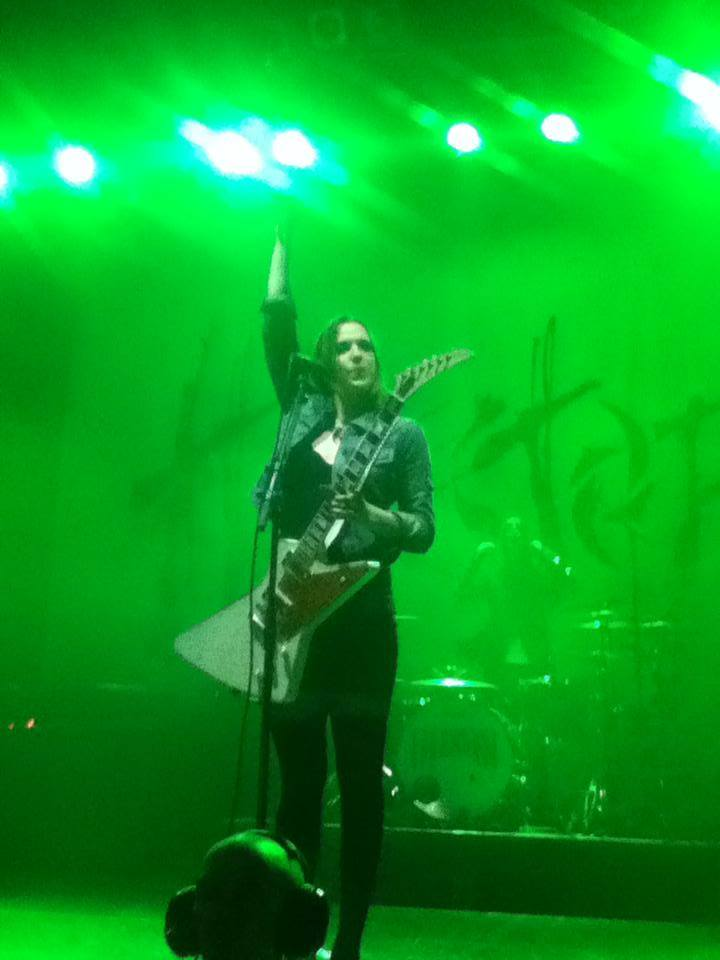 Lzzy Hale Performing At The Glasgow 02 Academy